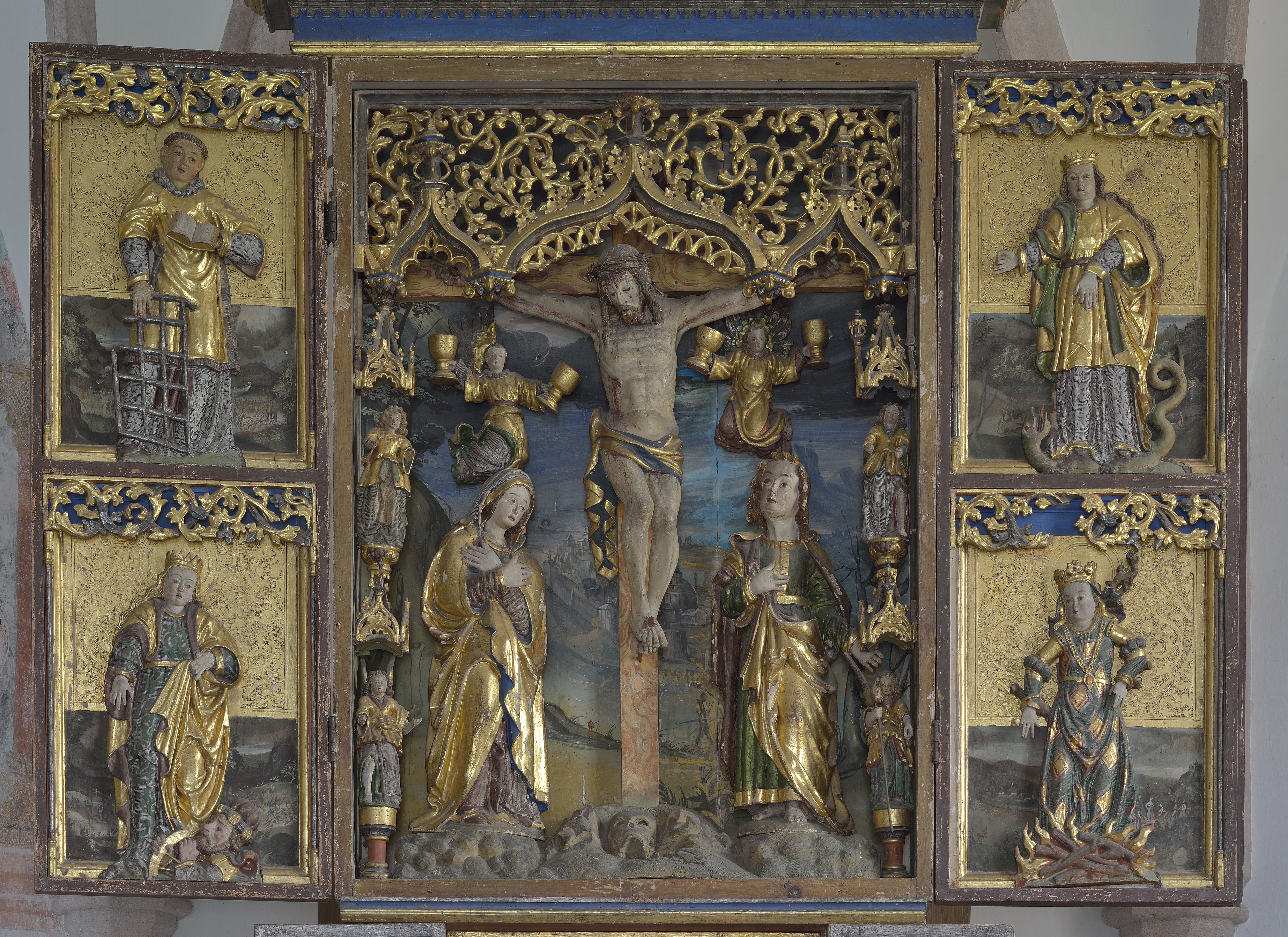 Crucifixion with Mary and Saint John, two angels collecting the blood of Jesus, four angels with the intruments of the Passion. On the side doors clockwise from upper left the saints Lawrence, Margareth, Afra and Catherine. winged altar in the Saint Margareth church in Obervöls.